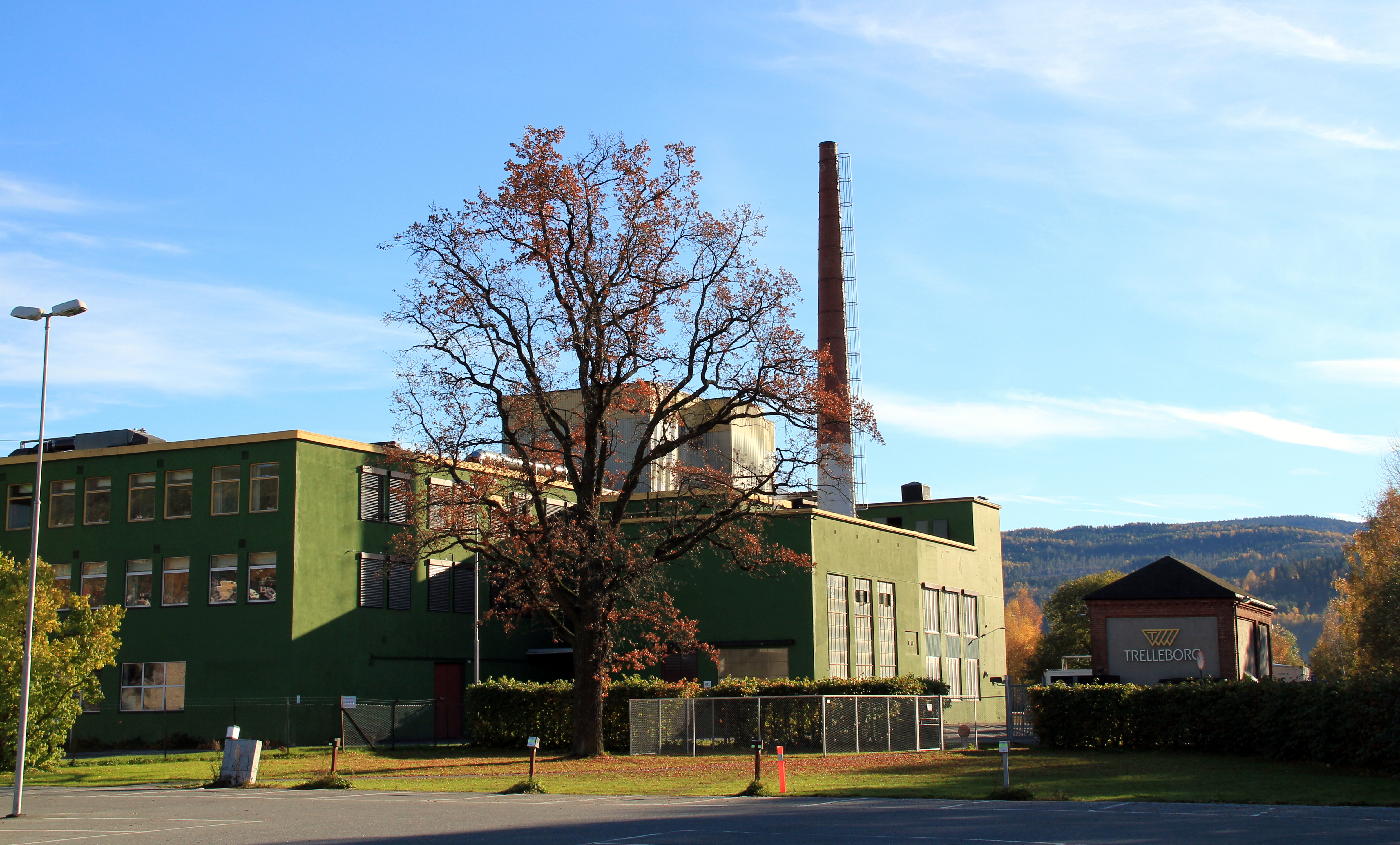 Trelleborg Offshore Norway, Krokstadelva